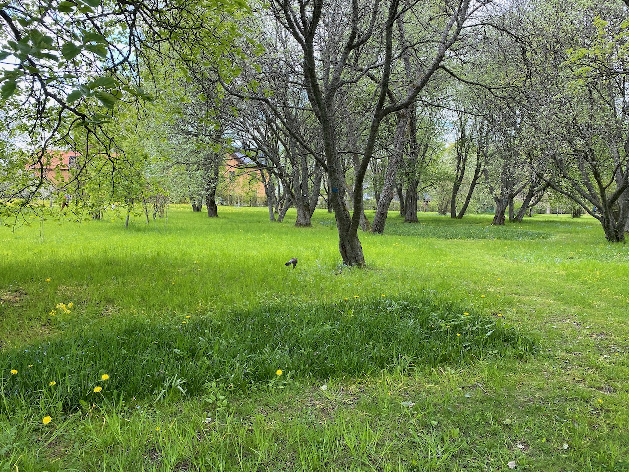 Urban Meadow at Botaniska Trädgården in Uppsala during May. The meadow is only partially mowed to establish some corridors to walk.